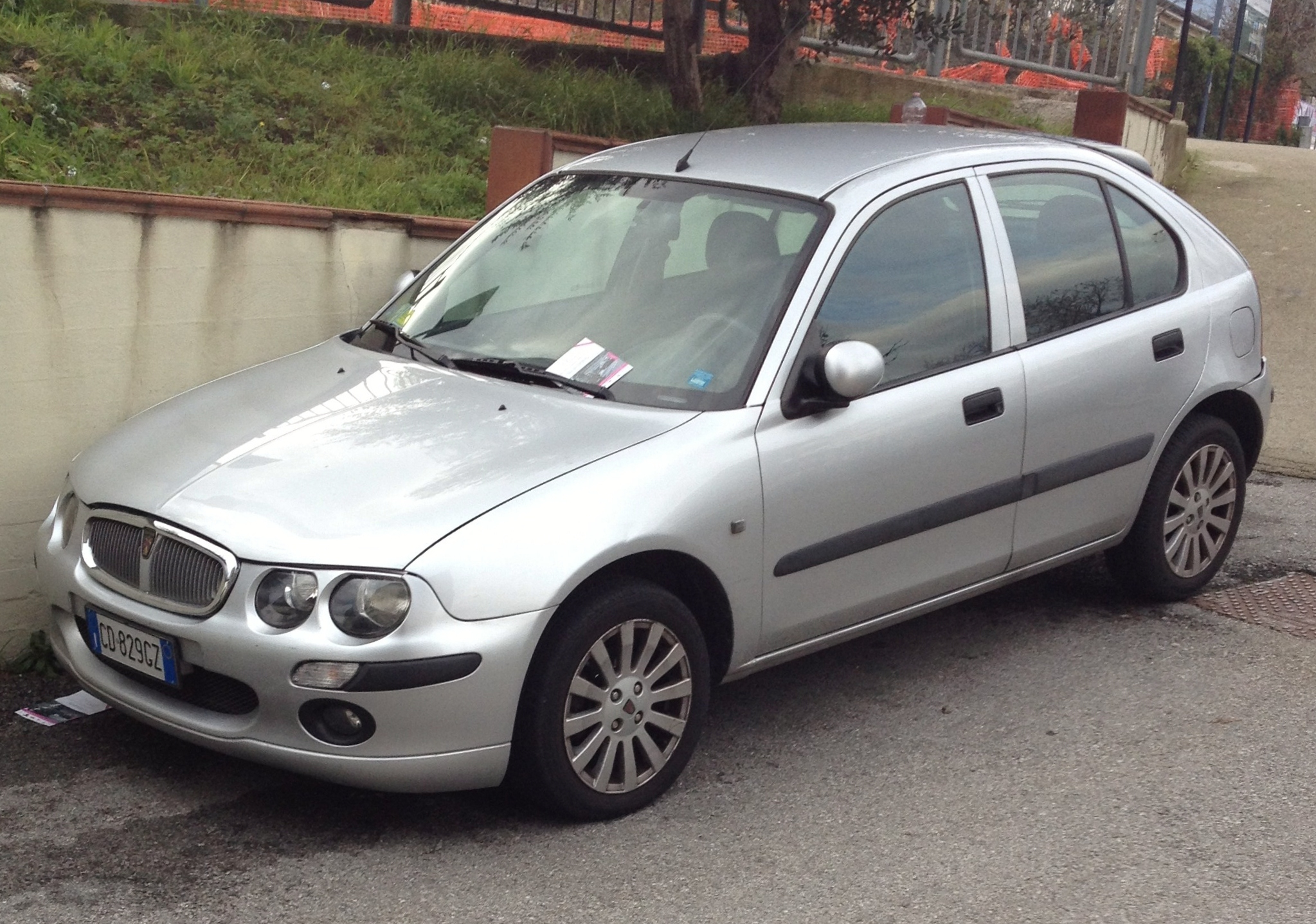 Rover 25 1.4 5door